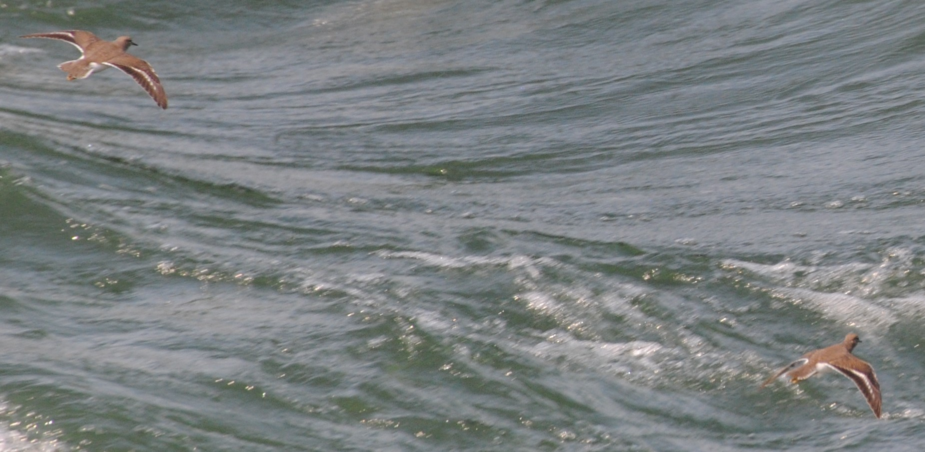 'Record shot' of Spotted Sandpipers in flight, off Île Sainte-Hélène in Montreal, Canada, showing diagnostic features such as the all-brown back & tail (i.e. no black, unlike many other sandpipers), white leading and trailing edge to the wings, partial white wingbar, and white edging to tail. One of these birds can also be seen in File:Spotted Sandpiper - 2017-08-17 - Andy Mabbett - 01.jpg